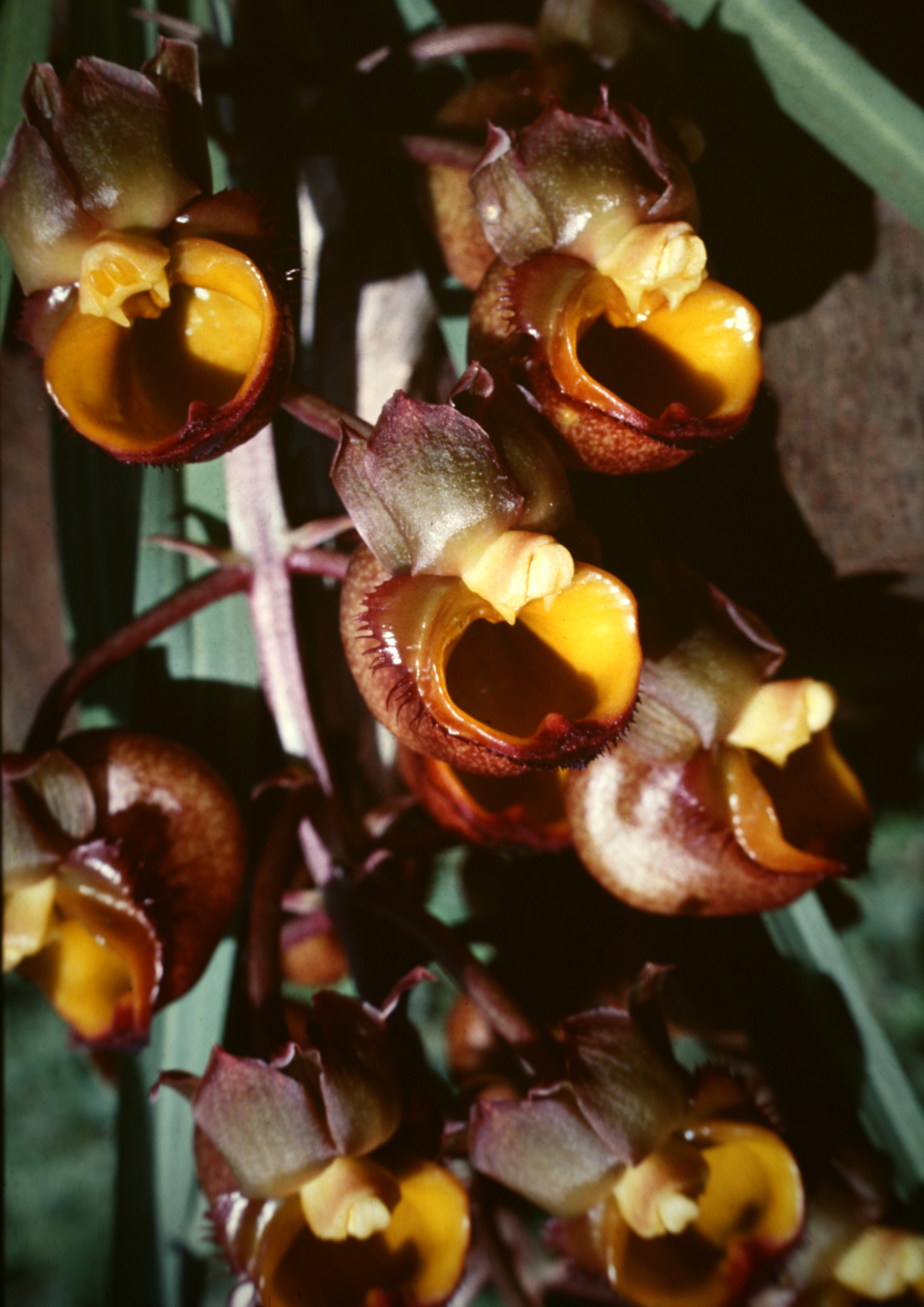 Catasetum longifolium. Suriname. Plant grows "upside down", hanging from the leaf sheaths of morisi palms (Mauritia flexuosa)